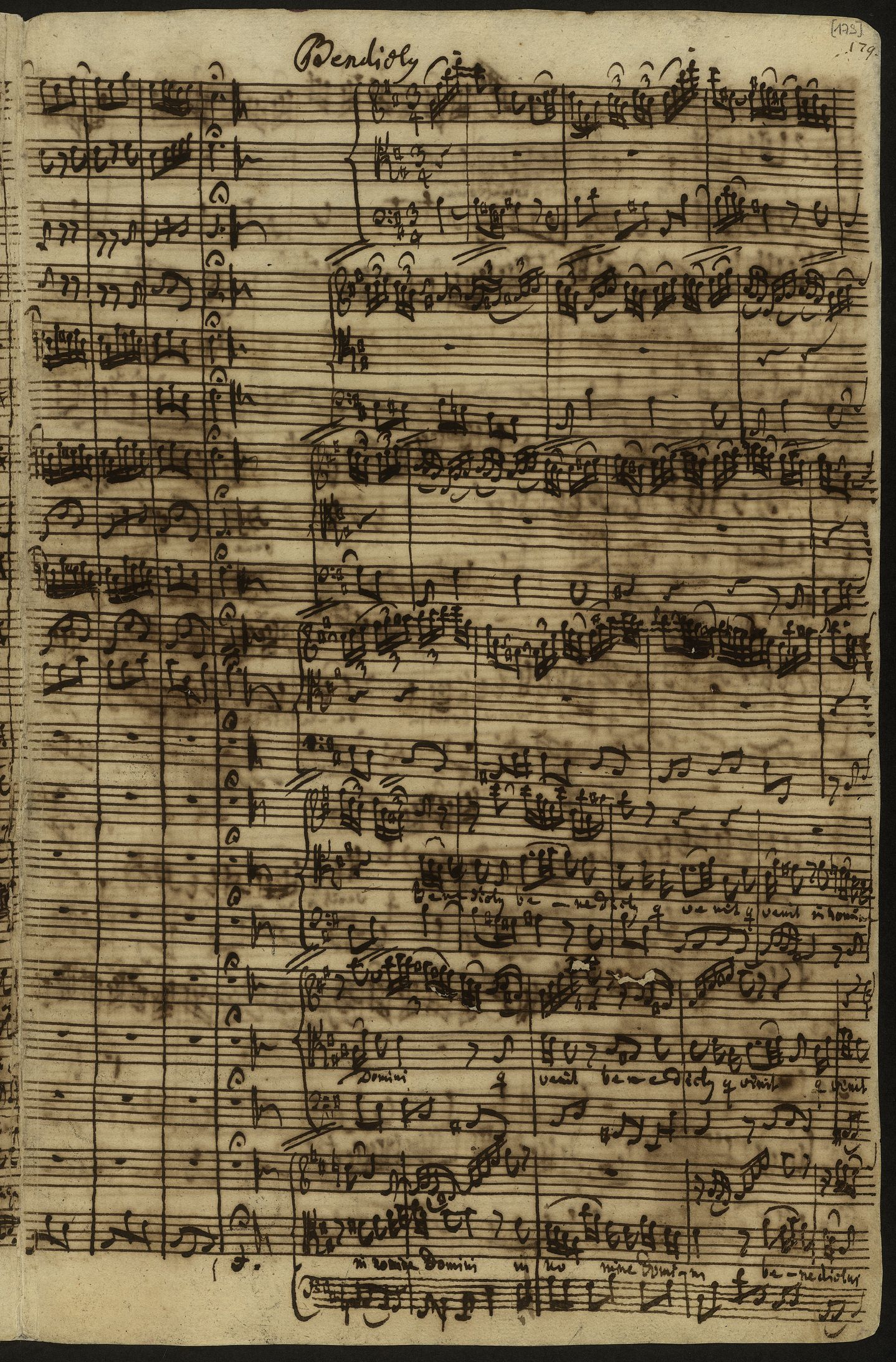 First page of the Benedictus from the autograph score of the Mass in B minor